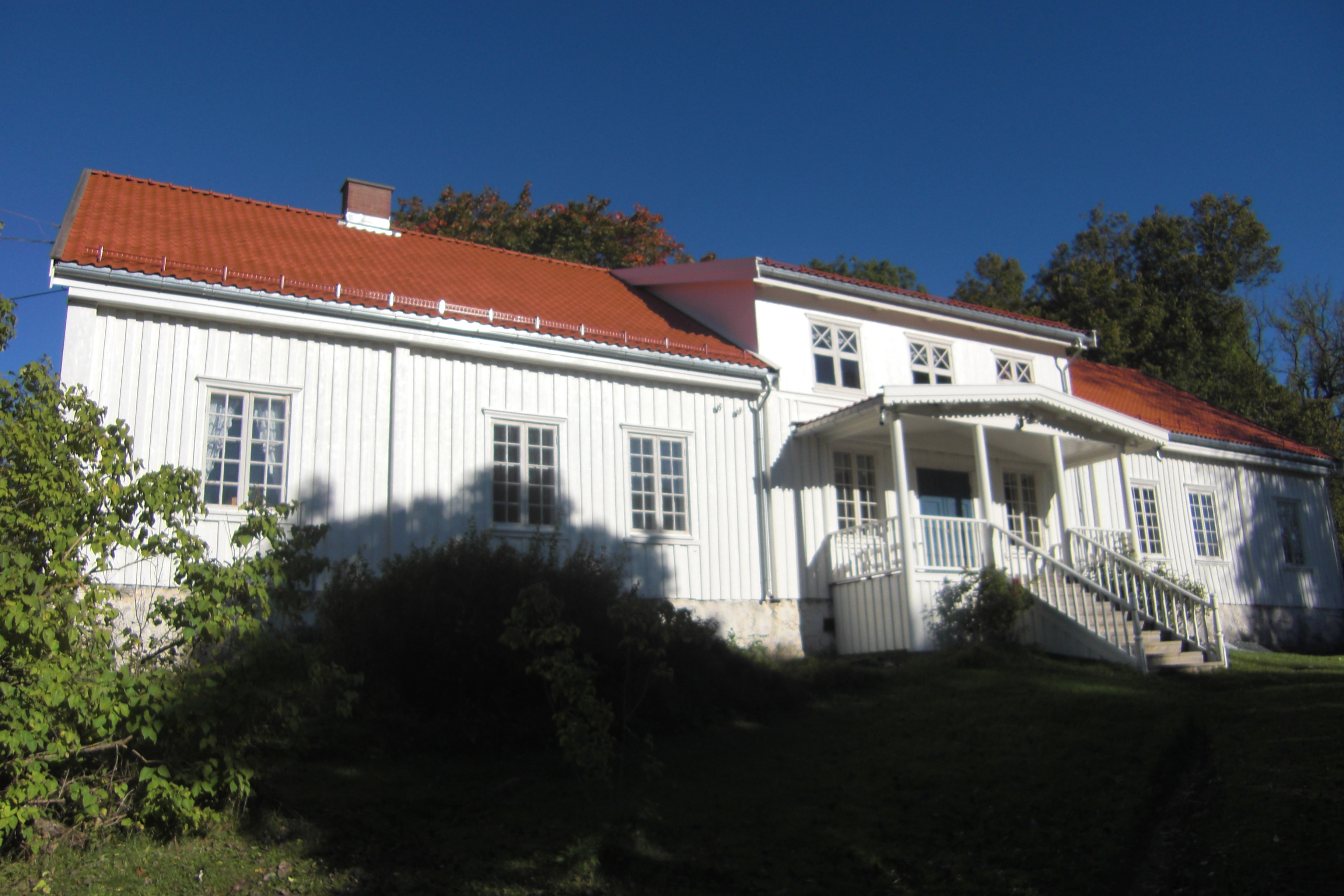 Spydeberg vicarage, Spydeberg county, Østfold